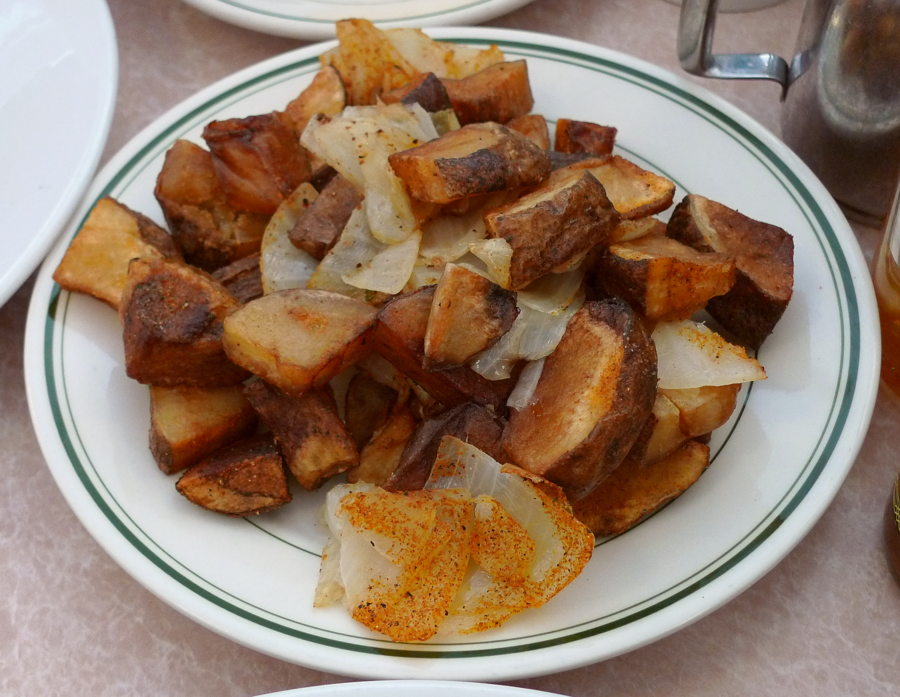 A plate of home fried potatoes, also known as home fries, as served by the Palo Alto Creamery at 566 Emerson Street in Palo Alto, California, USA.